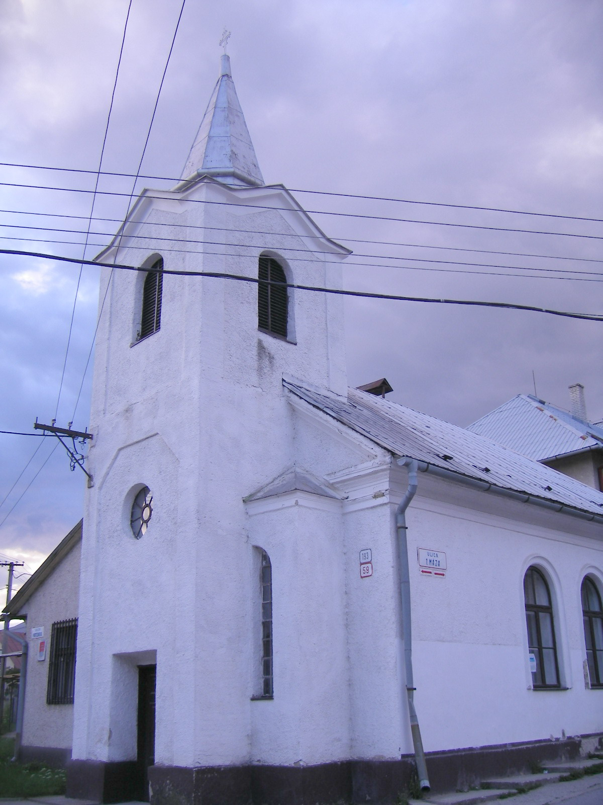 Podhradie - church